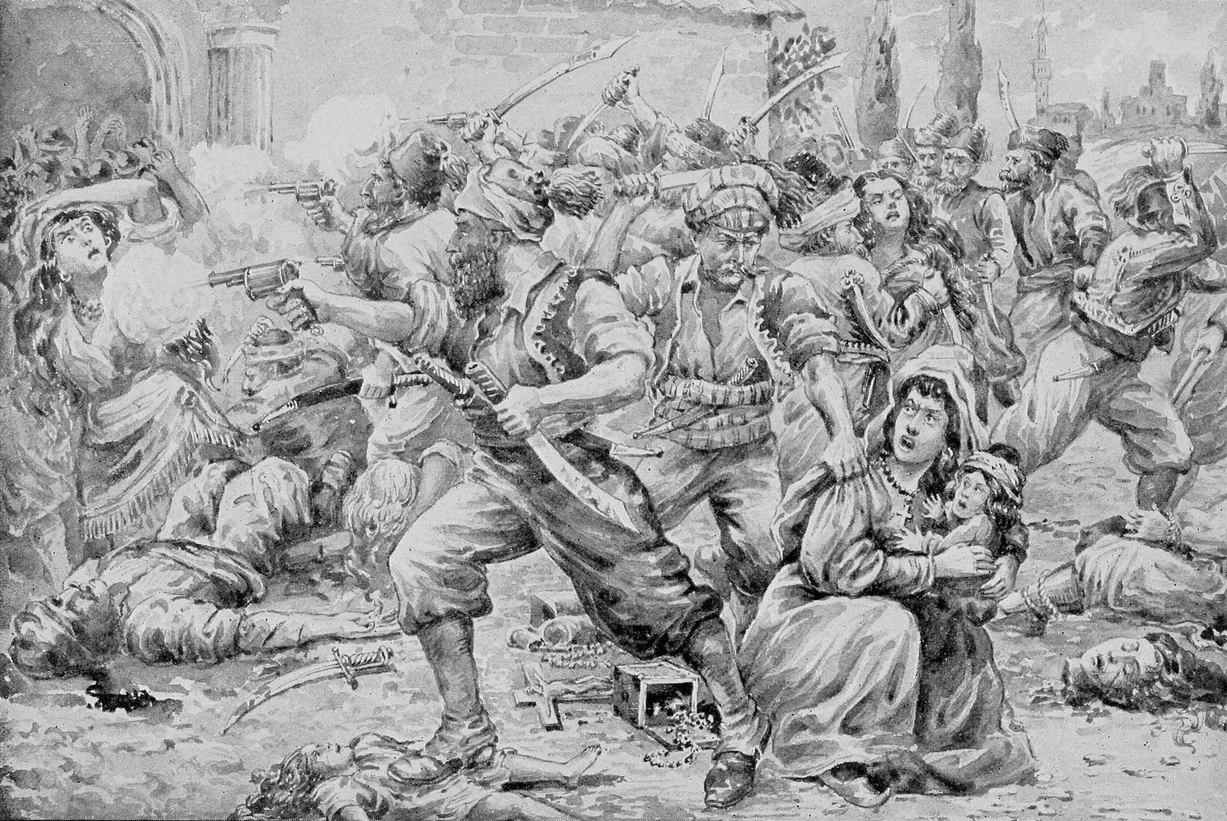 Sketch by an eye-witness of the slaughter of Armenians at Sassun